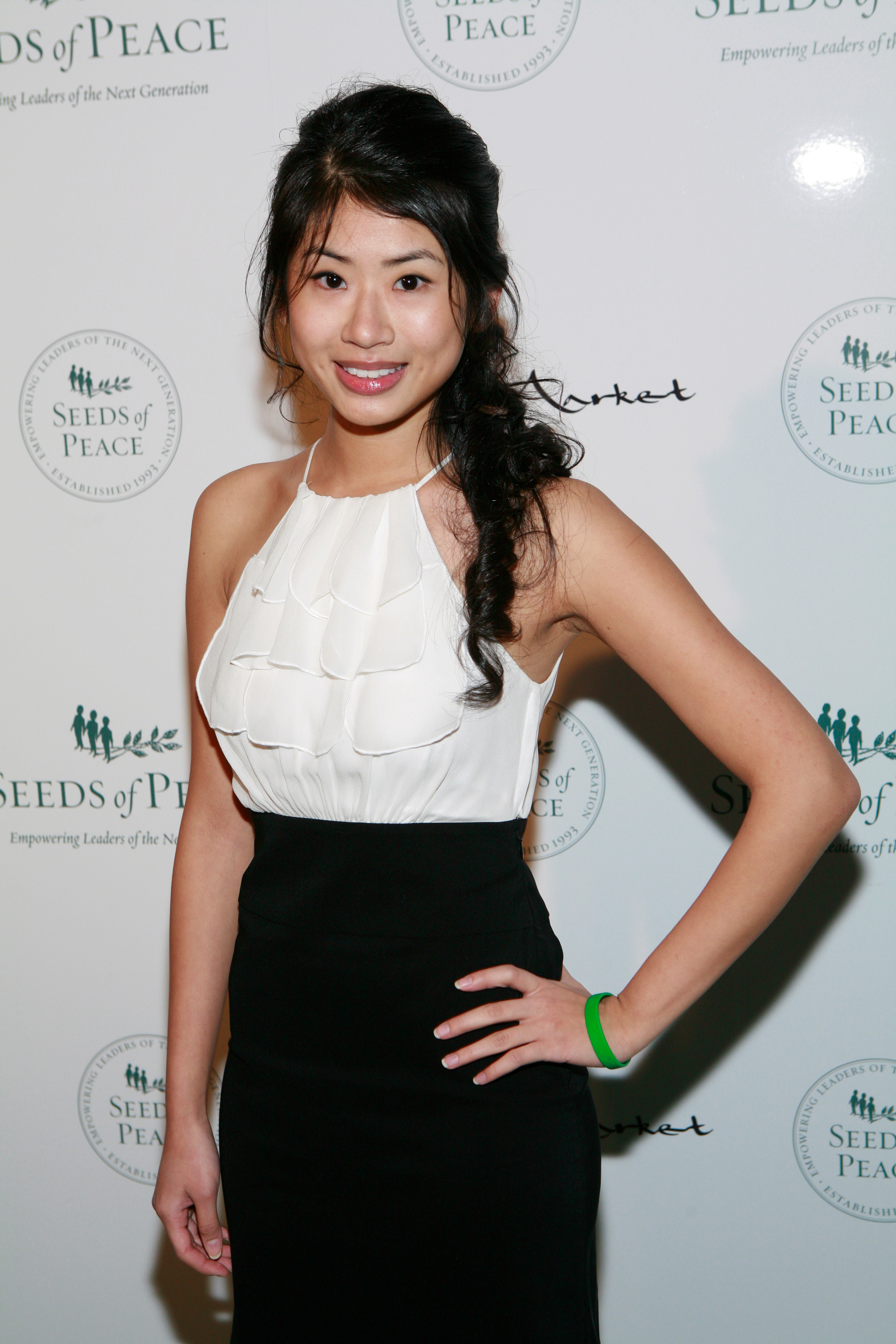 Yin Chang== Peace Market 2009 For SEEDS OF PEACE Hosted by IVANKA TRUMP== February 19, 2009==